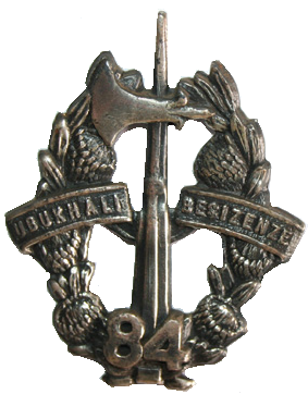 SADF 84 Motorised Brigade beret badge